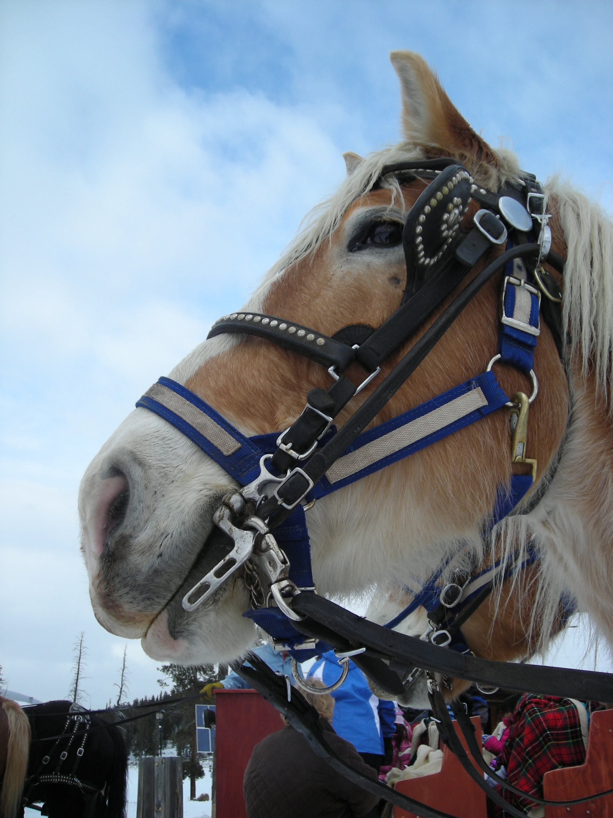 Taken with Nikon L6 at Keystone, Colorado.